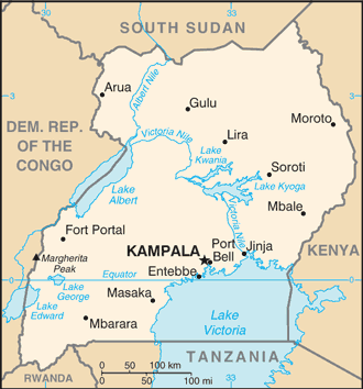 CIA World Factbook map of the country of Uganda.